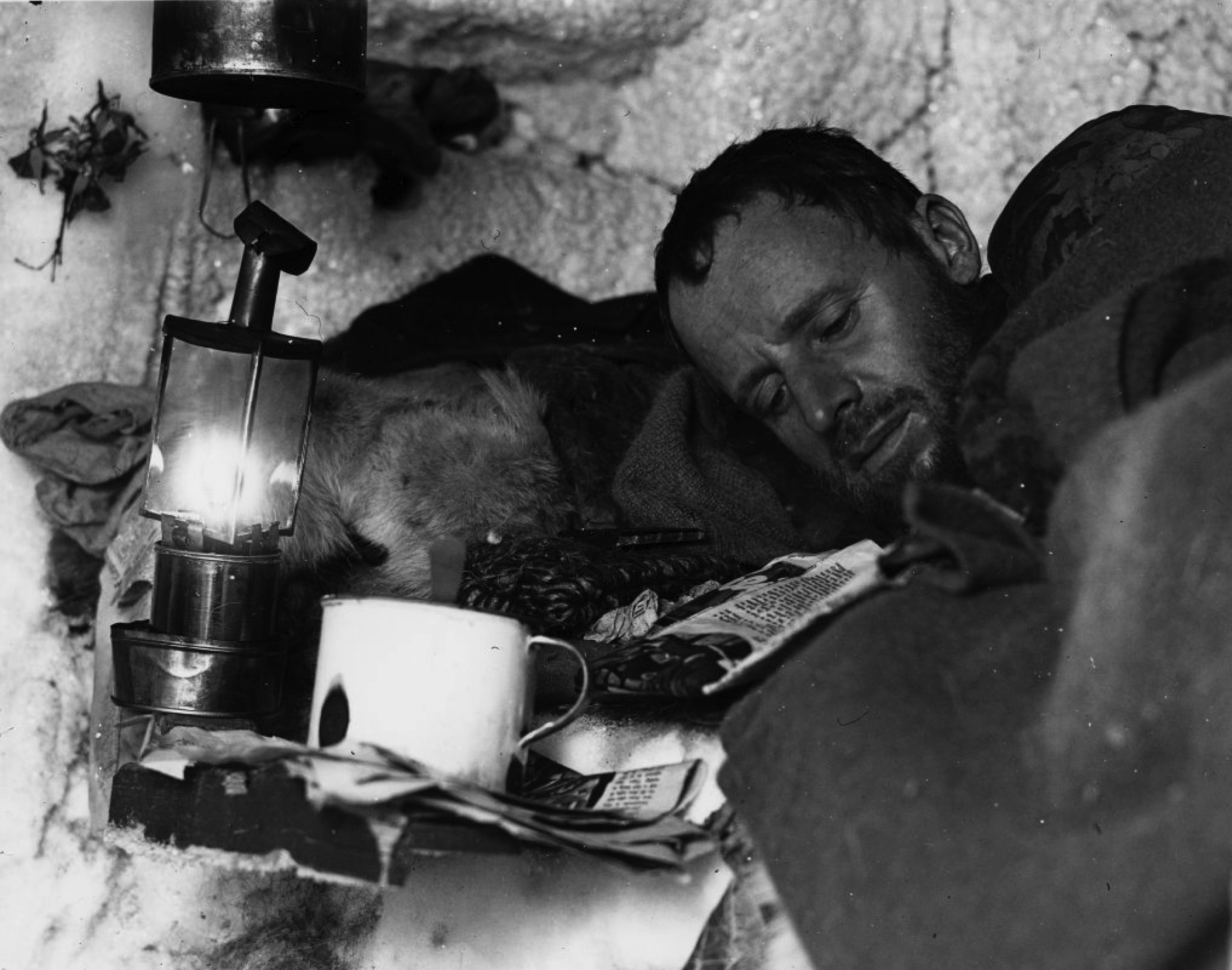 Photograph of the German expedition and overwintering in Greenland